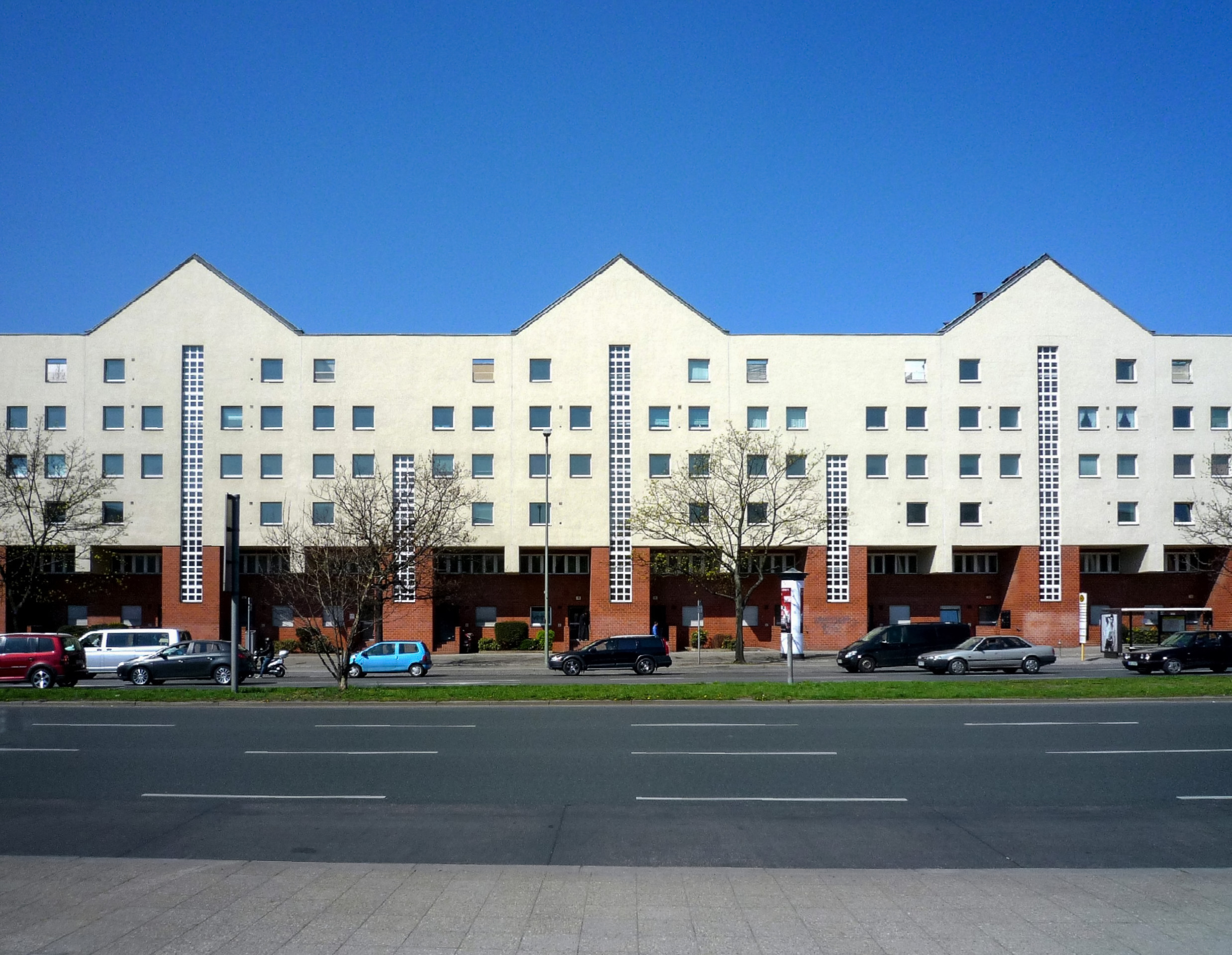 Domestic architecture at Lützowplatz in Berlin. Built up 1979-83. Architect: Oswald Mathias Ungers.